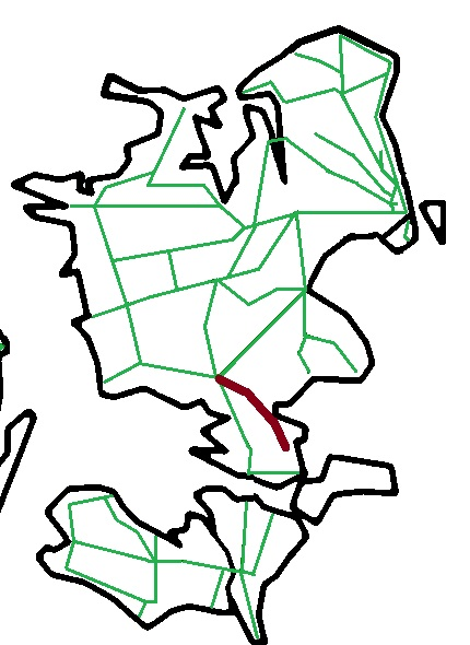 Map of railways on Zealand in Denmark with the private railway Næstved-Præstø-Mern Banen in brown.